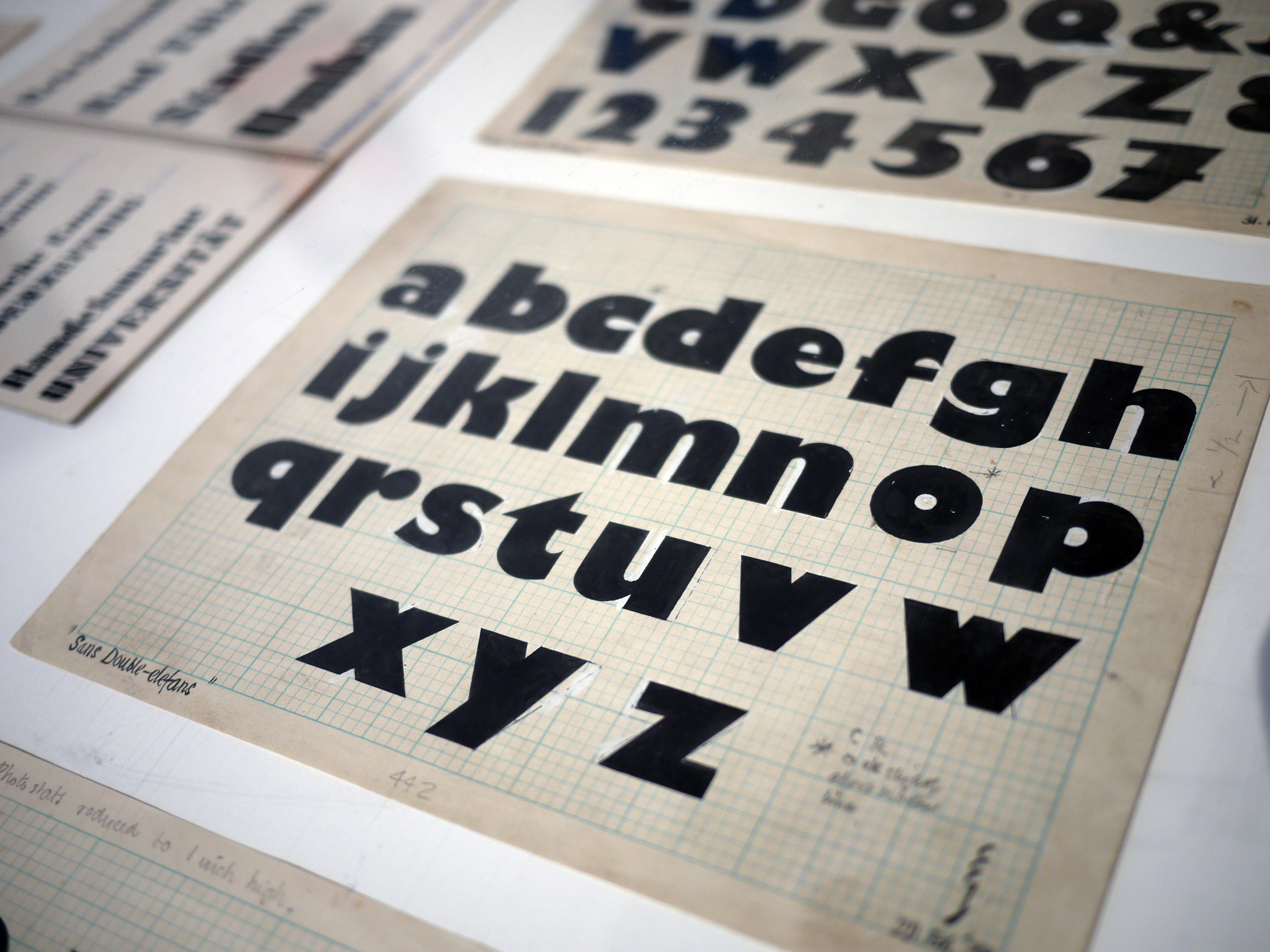 Monotype NTU From a Monotype exhibition at Nottingham Trent University